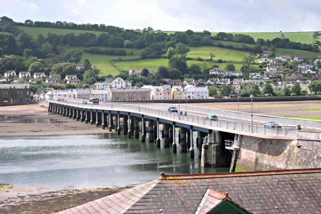 The Shaldon Bridge at Teignmouth in Devon, England. This bridge was originally built in 1827 but was rebuilt in 1931. For more information see the Wikipedia article Shaldon Bridge.